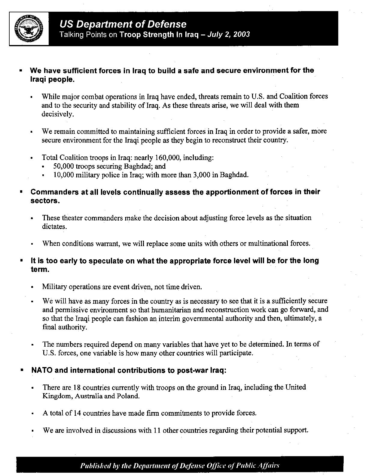 US Department of Defense talking points given to military analysts as part of the Pentagon message machine operation